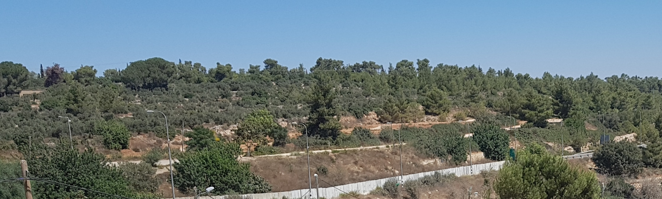 A general view of the Om Safa Forest from Neve Tsuf